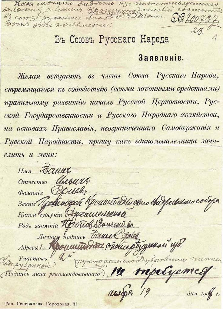 John from Kronstadt